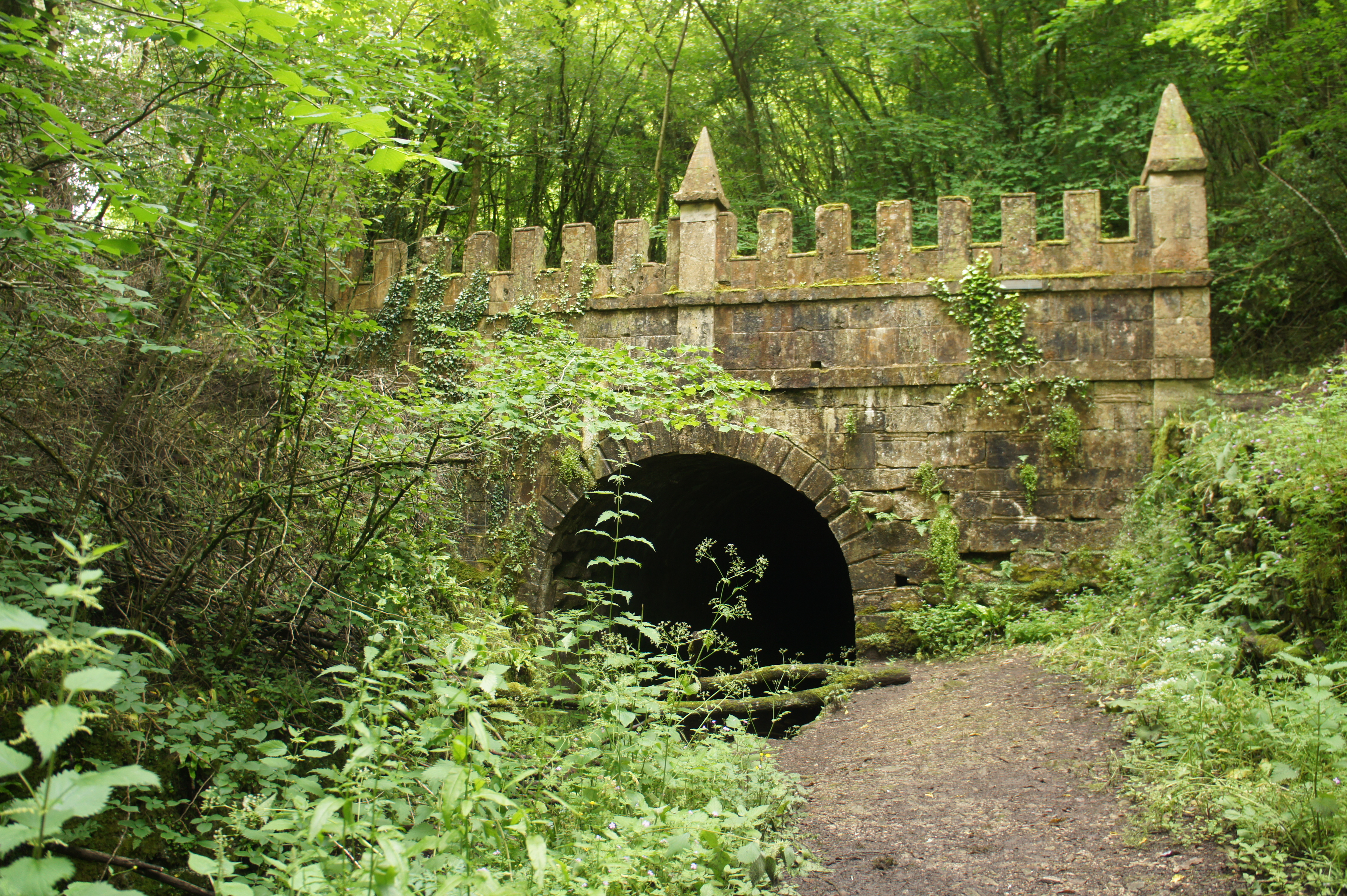 The northern portal of the Sapperton Canal Tunnel on the Thames and Severn Canal